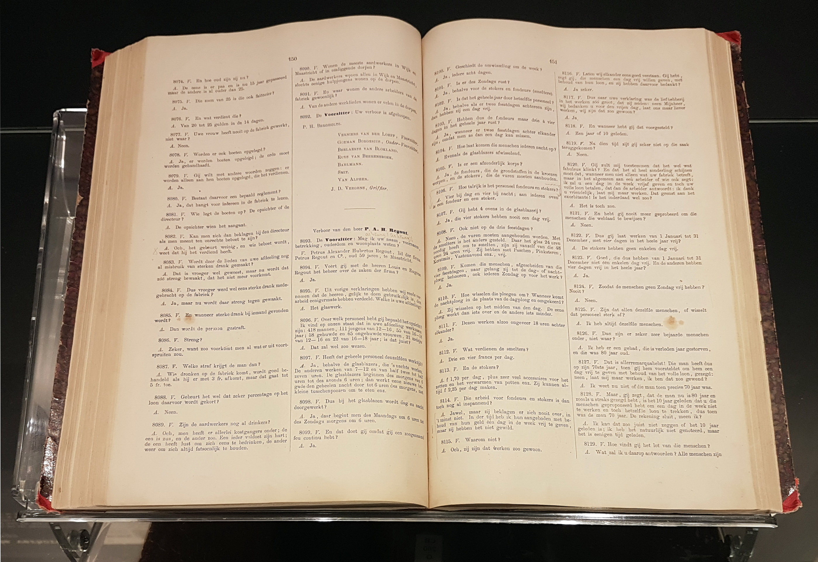 Detailed report of the parliamentary enquiry after working conditions in the factories of Petrus Regout & Co in 1887. Collection of Centre Céramique, Maastricht, Netherlands.